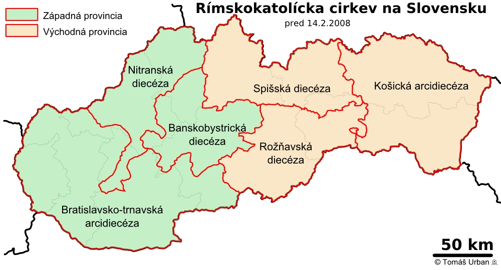 Old map of Roman Catholic dioceses of Slovakia